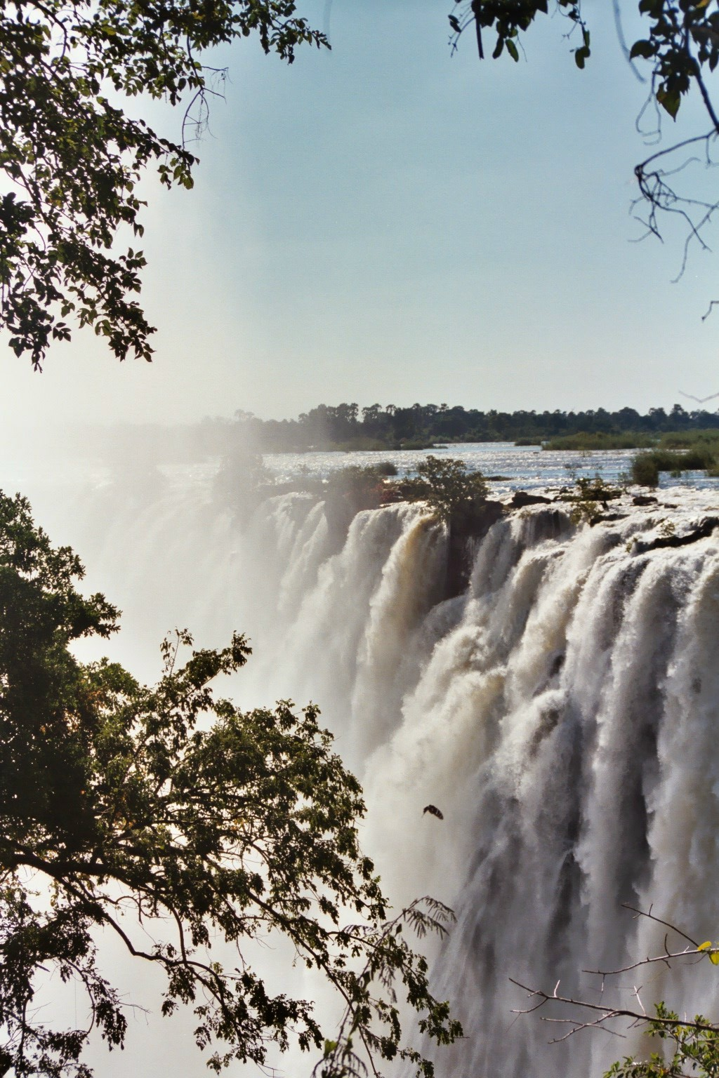 Picture taken April 2003.